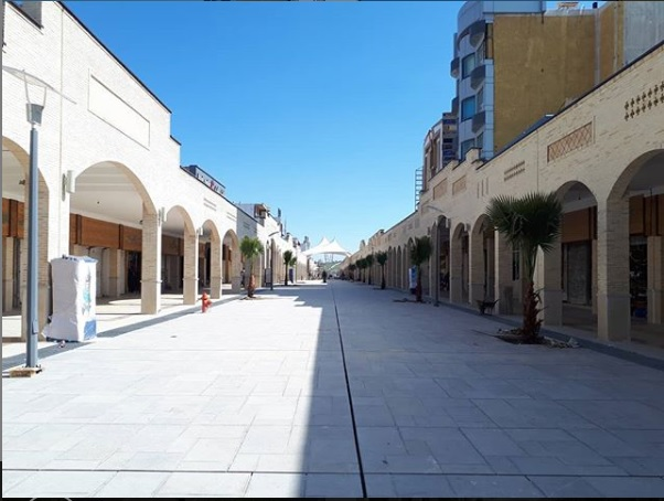 Baladian street